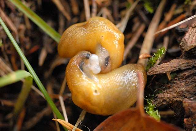 Malacolimax tenellus from Commanster, Belgian High Ardennes .